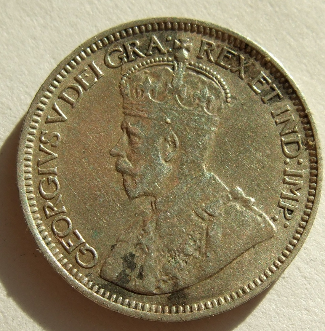 CANADA, GEORGE V 1917 ---10 CENTS b